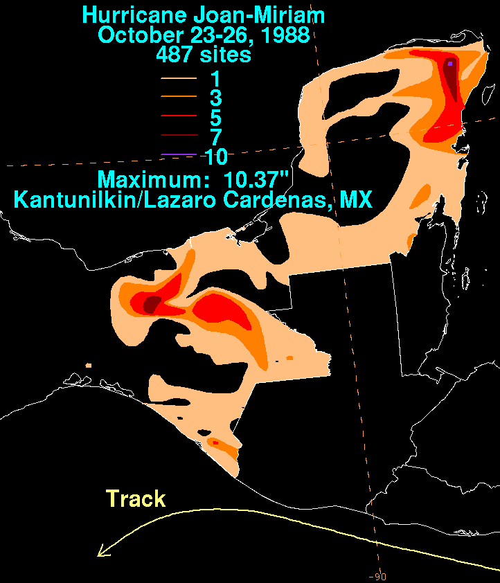 Rainfall produced by Hurricane Joan–Miriam during October 1988.